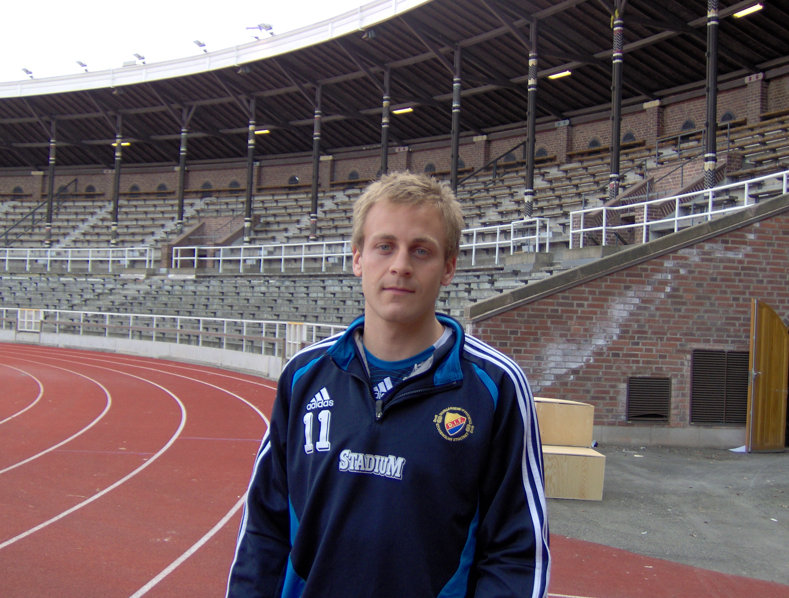 Finnish football player Daniel 'Daja' Sjölund after an open traning at Stockholms Stadion.